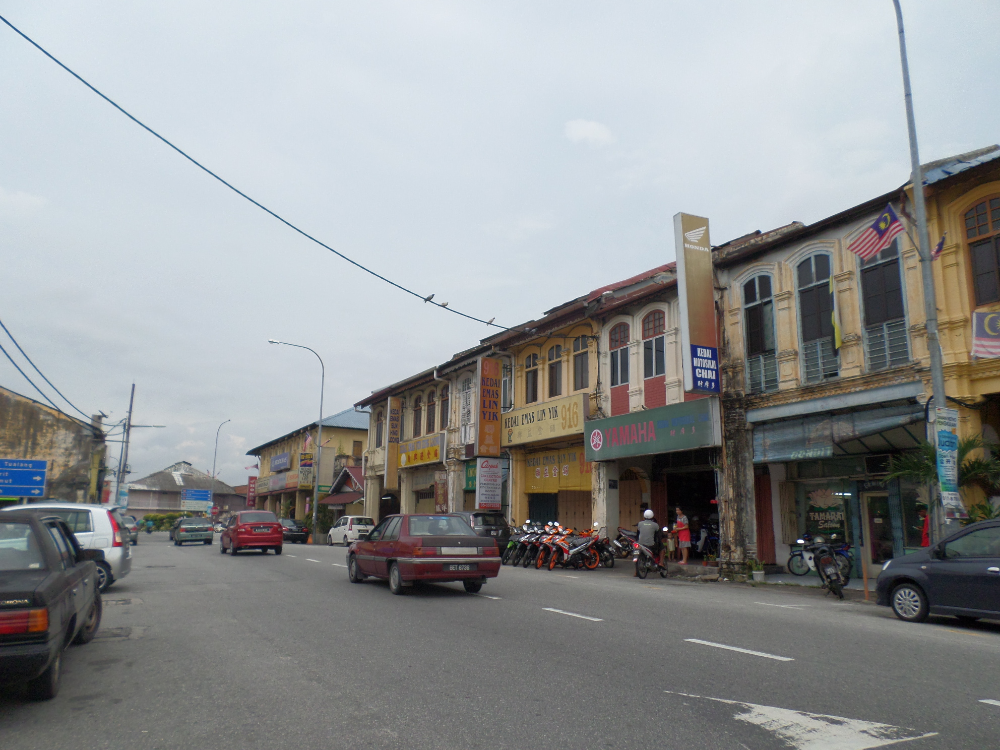 Batu Gajah, Kinta, Perak, MalaysiaBahasa Melayu: Batu Gajah, Kinta, Perak, Malaysia